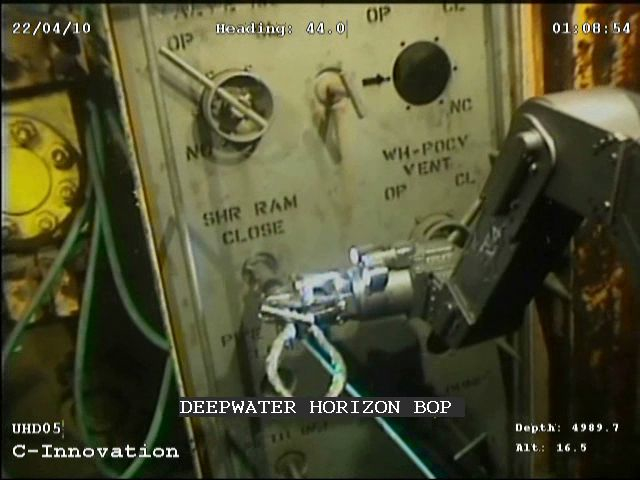 ROBERT, La. - A robotic arm of a Remotely Operated Vehicle (ROV) attempts to activate the Deepwater Horizon Blowout Preventor (BOP), Thursday, April 22, 2010. In addition to the use of ROVs, the unified command is mobilizing the Development Driller III, a drilling rig that is expected to arrive Monday to prepare for relief well-drilling operations, to stop the flow of oil that has been estimated at leaking up to 1,000 barrels/42,000 gallons a day.